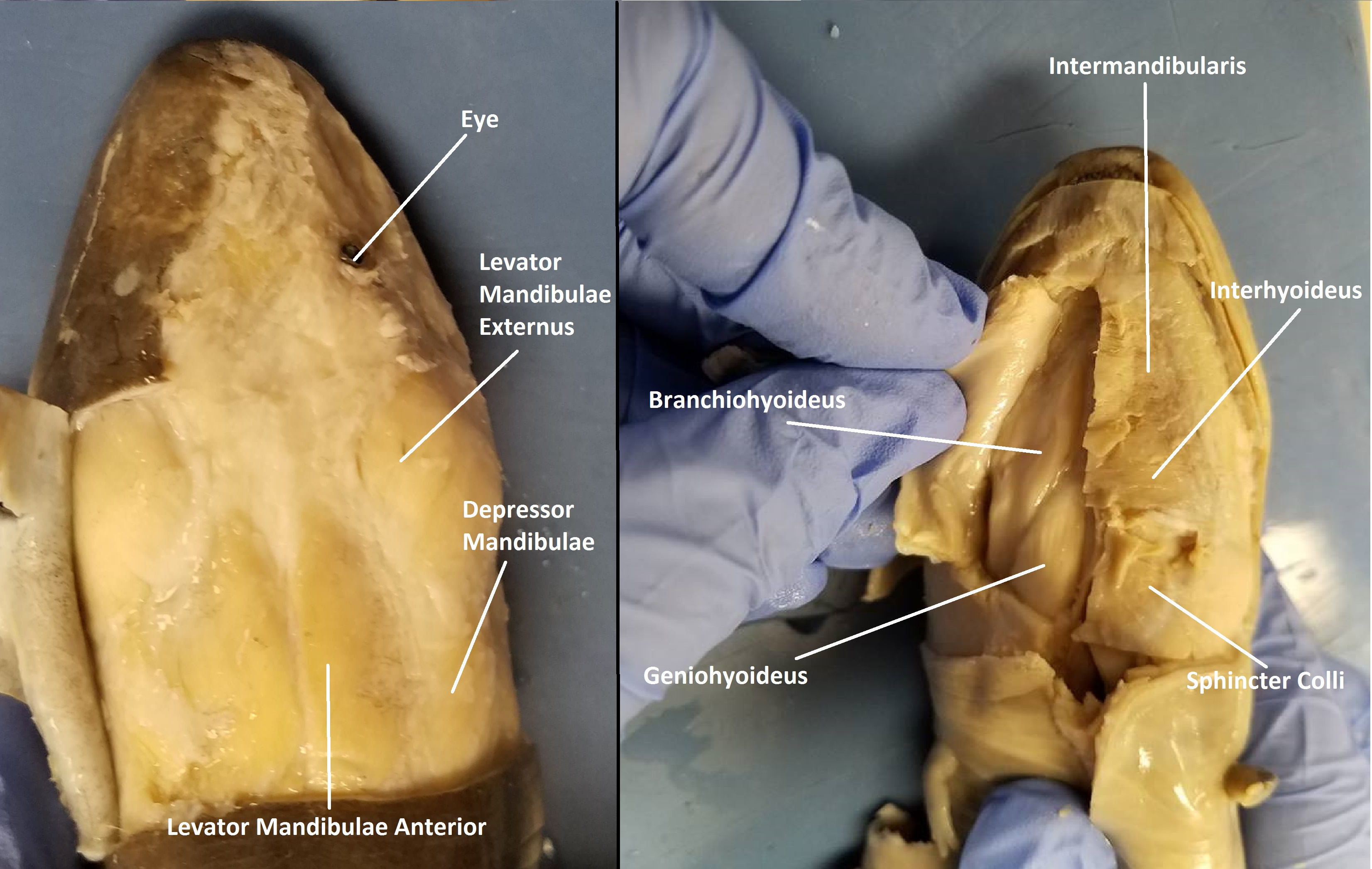 The muscles that control the upper and lower jaw in an Amphiuma.